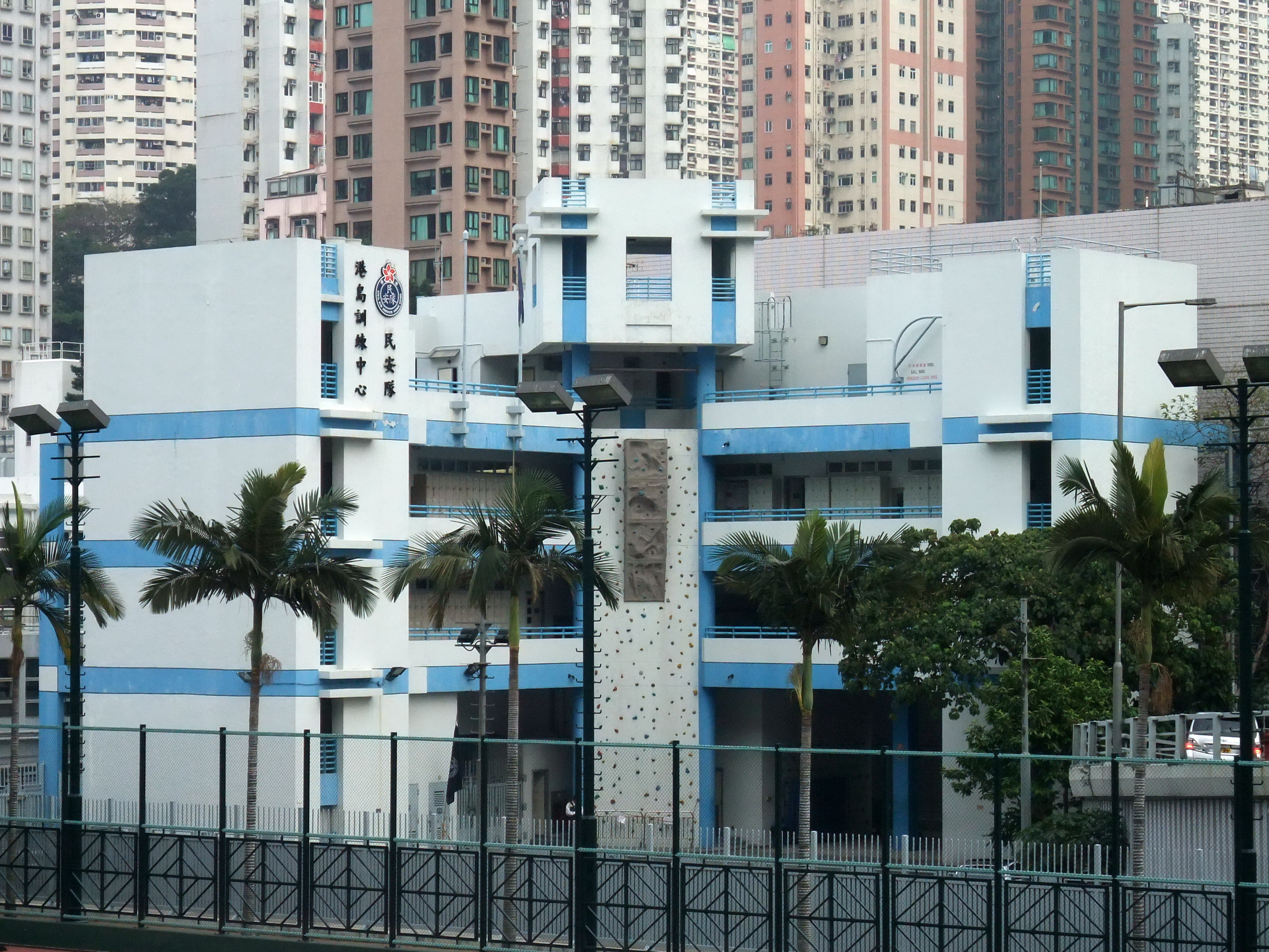 Civil Aid Service Hong Kong Training Centre, Causeway Bay, Hong Kong.